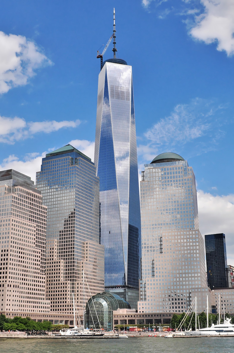 One World Trade Center as seen from the Hudson River.